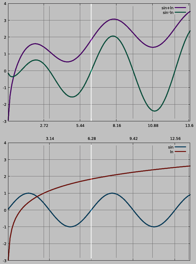 The lower plot shows the functions sin (blue) and ln (red) on the interval [0.05,13.7]. The upper plot shows their pointwise sum (violet) and product (green) on the same interval. The highlighted vertical slice shows how sum and product were obtained at the point x=2π from the sum and product of the output of sin and ln at that point, respectively.